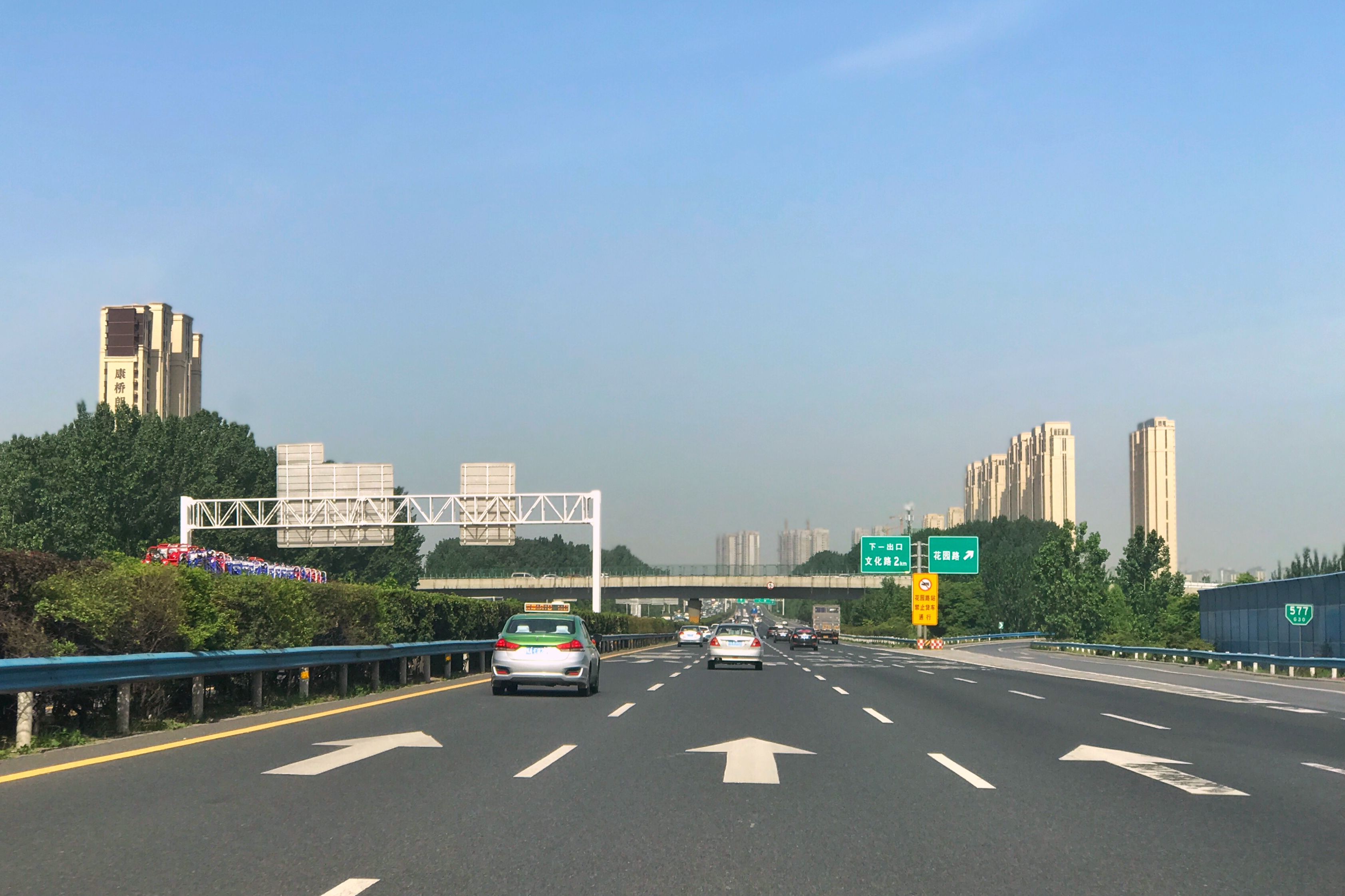 G30 Lianhuo Expressway Zhengzhou section